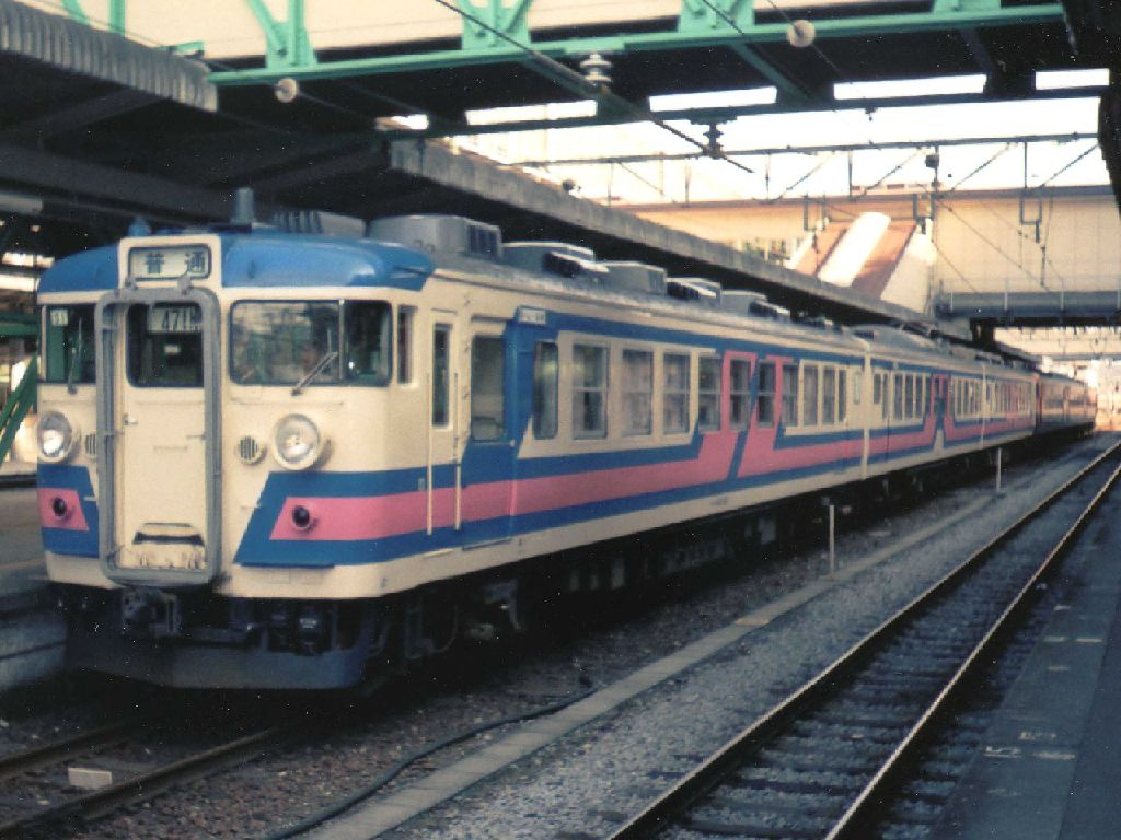 East Japan Railway Company, EMU type 165 Montres color of JR East at Takasaki Sta.